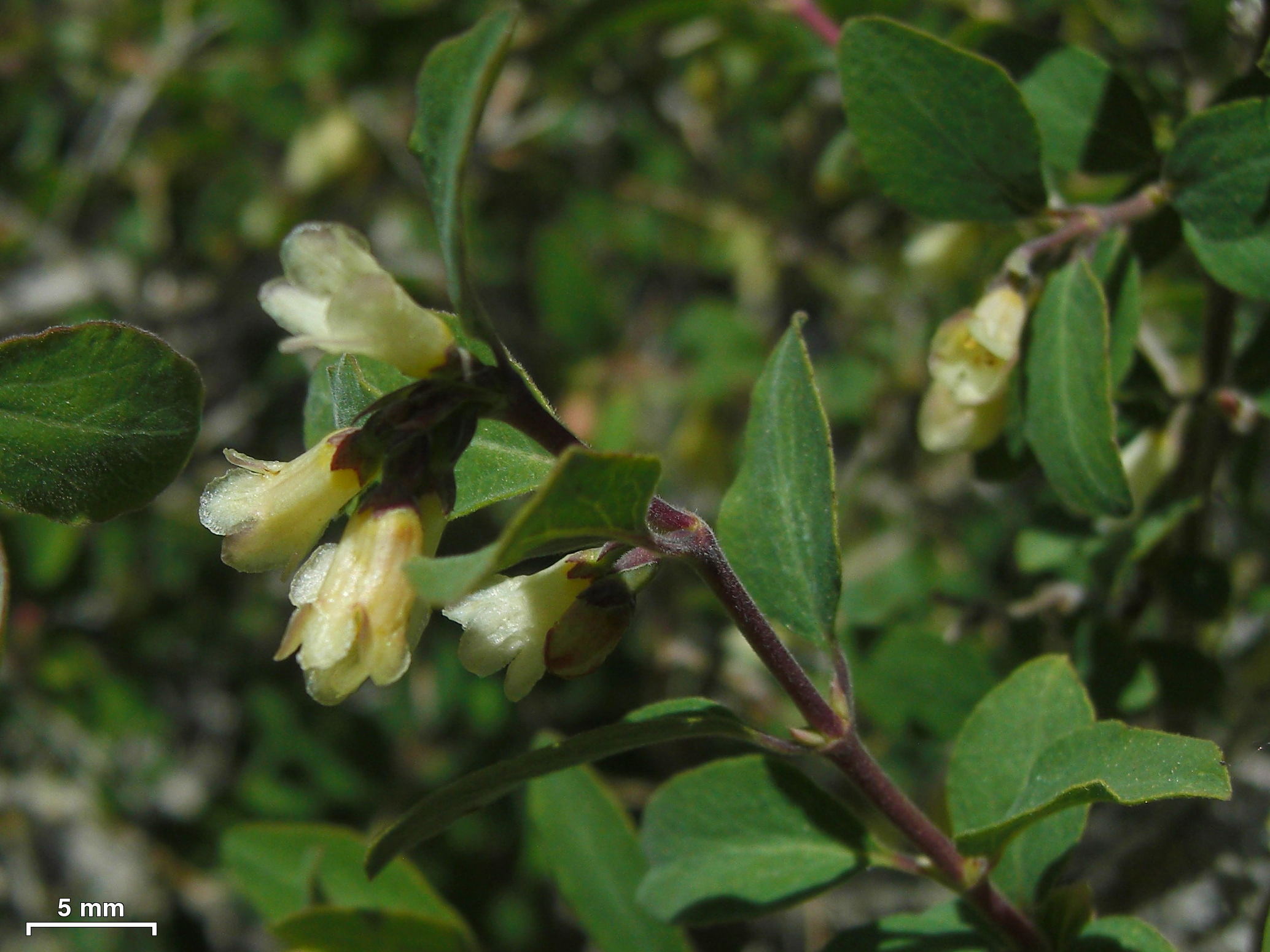 Hunter Lake Trail, Reno, Nevada, 20140531